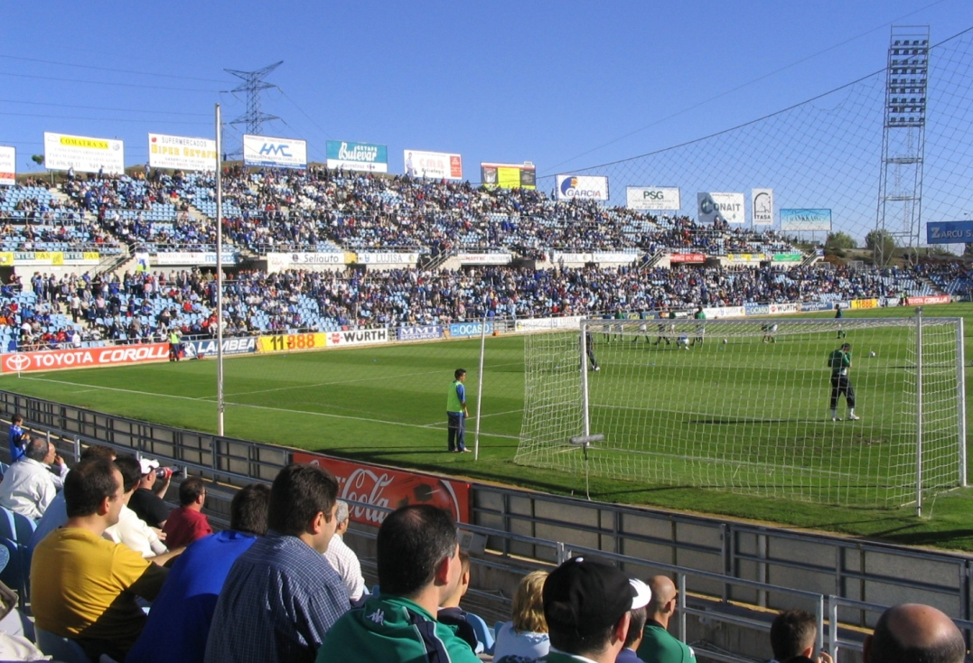 Stadium of Getafe CF, Getafe, (Madrid), Spain Author: Miguel303xm Date: October 23rd, 2004 Place: Coliseum Alfonso Pérez, Getafe, Madrid, Spain